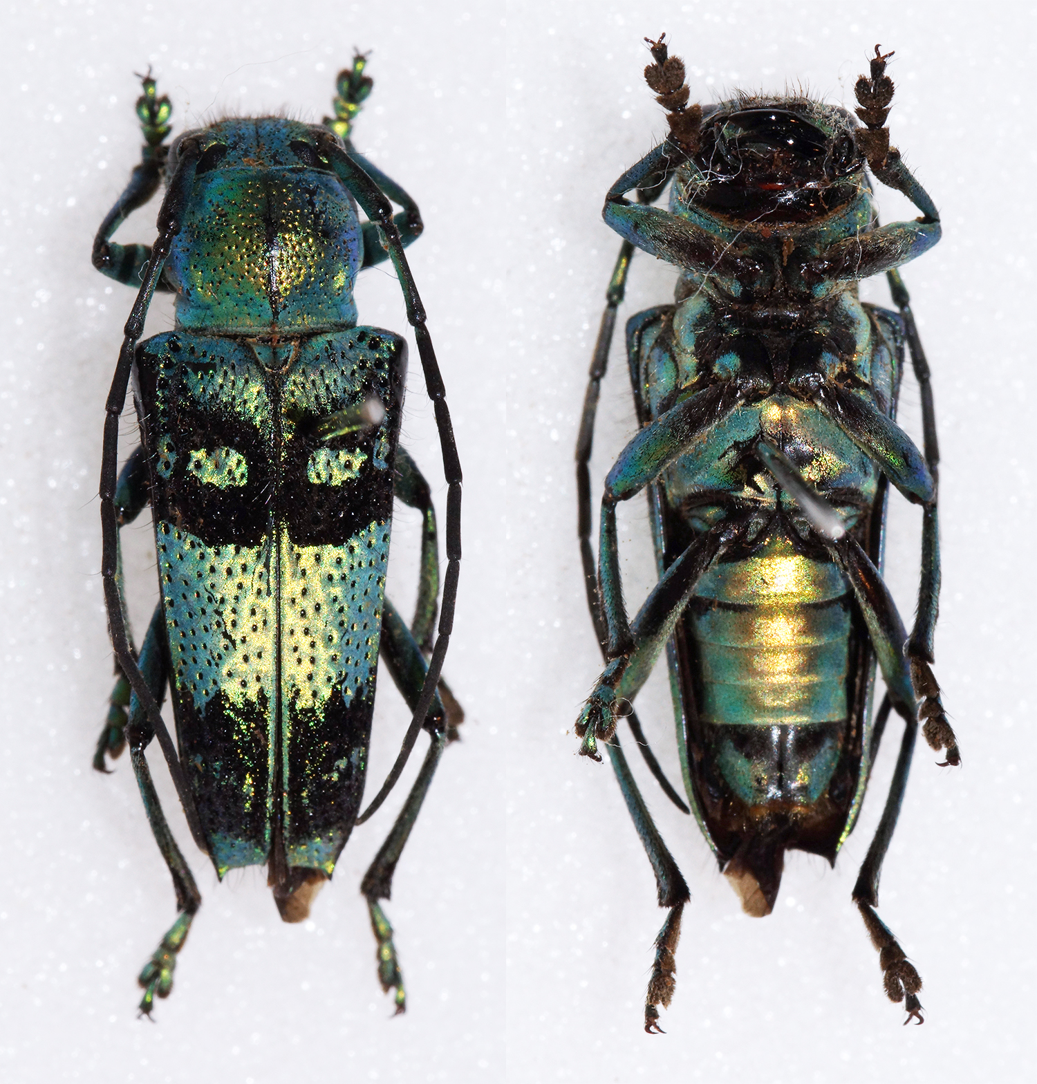 Thomson,1865 Sex: ? Data: 02-2012 - Palu Palolo - Central Sulawesi Size: 18mm